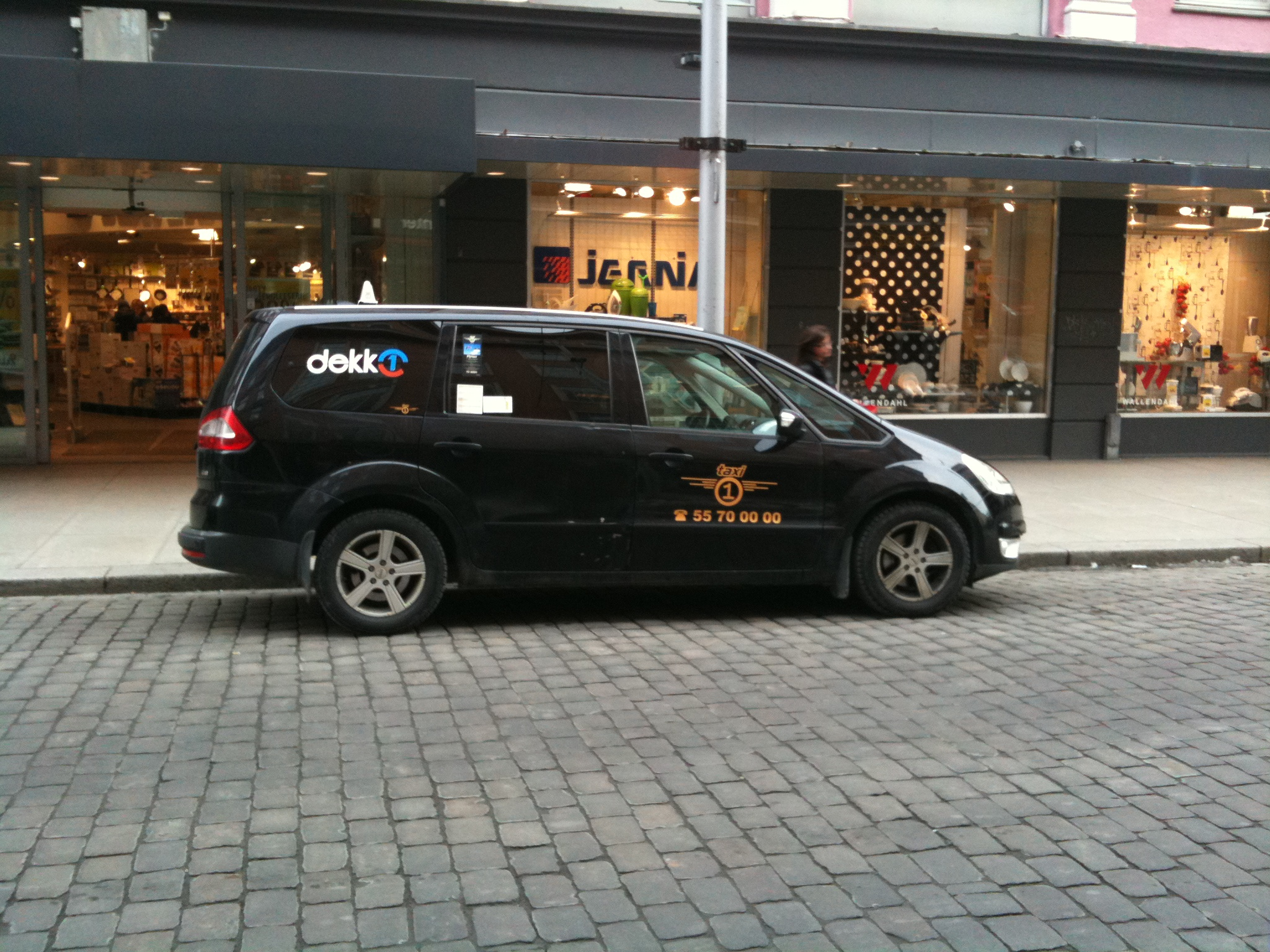 A cab from Taxi 1 in Bergen, Norway